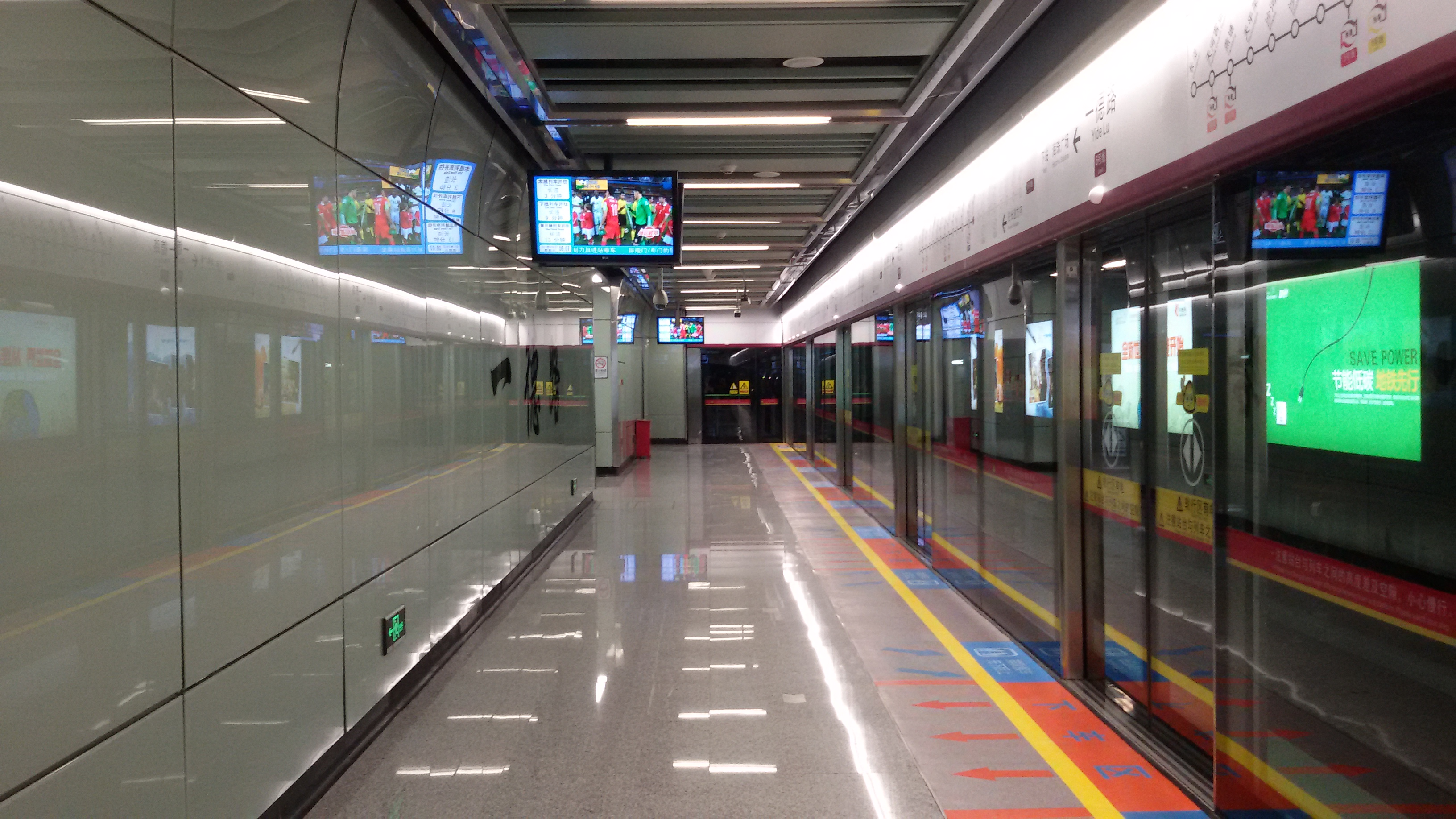 Station Platform for Yide Lu Station in Guangzhou Metro.